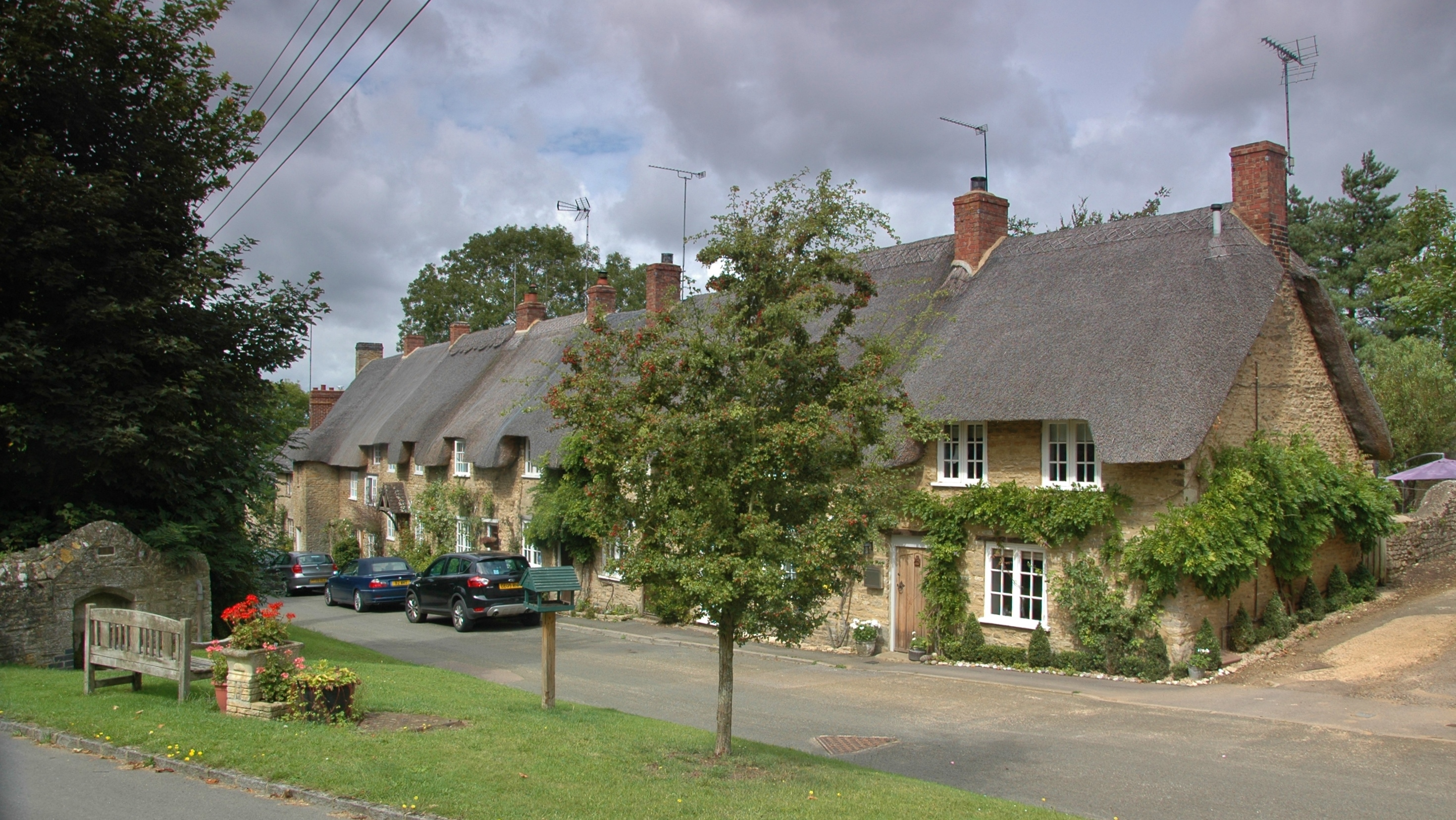 Thatched cottages in High Street, Upper Heyford, Oxfordshire, seen from the east